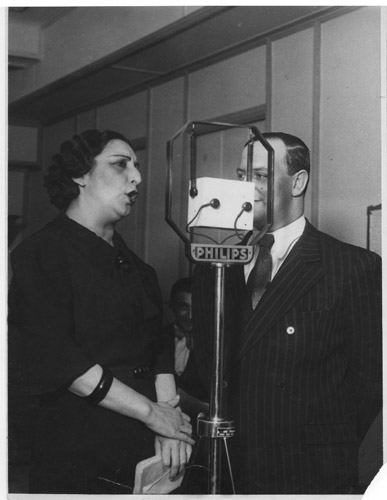 Isidro J. Odena y Lola Membrives- actores argentinos